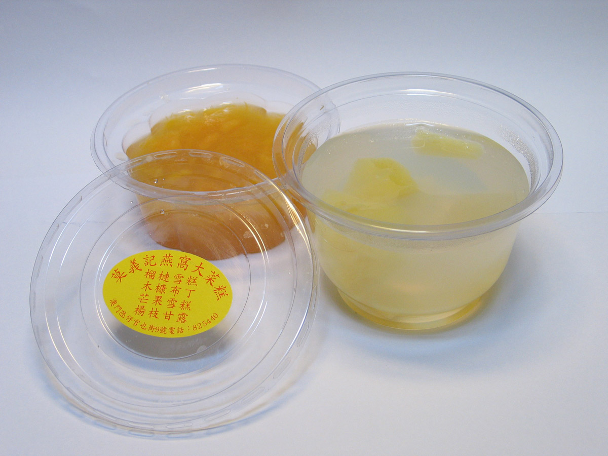 Mango & Pineapple Jelly. Photo taken by Glio 澳門氹仔莫義記的芒果及菠蘿大菜糕